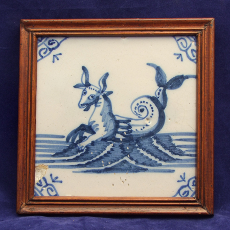 17th century Dutch Delft blue and white tile with sea monster. Ox-head corner motif.